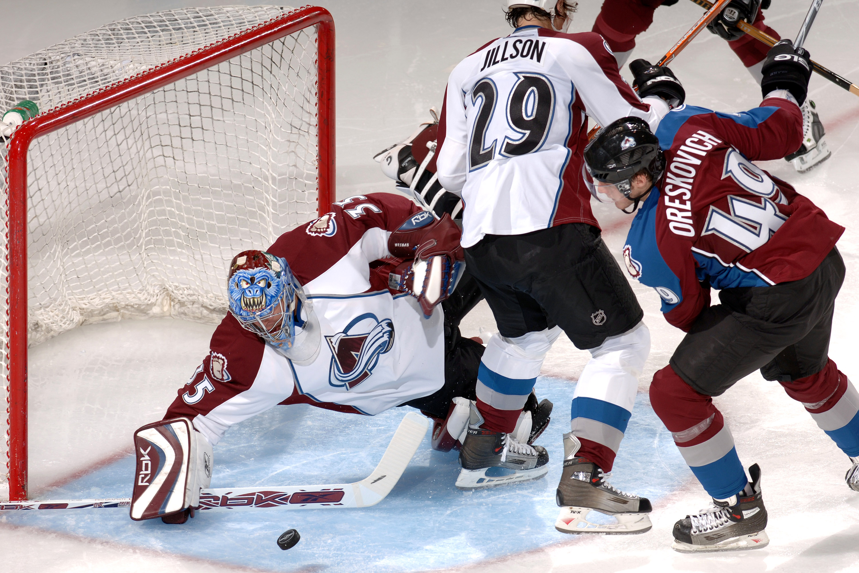 Colorado Avalanche rookie goalie Tyler Weiman slides to make a save in traffic during the Burgundy and White intra-squad scrimmage Sept. 16 at the Cadet Ice Arena at the U.S. Air Force Academy in Colorado Springs, Colo. was the first time an NHL team ever played at the Academy. (U.S. Air Force photo/Dave Armer) Also seen in the picture are Victor Oreskovich and Jeff Jillson.